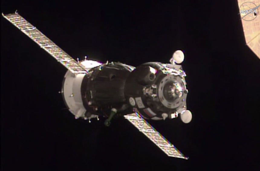 The Soyuz TMA-19M spacecraft approaches the International Space Station with three new Expedition 46-47 crew members.